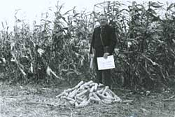 Dr. Tiedjens doing yield work in a corn field. Erie County, Ohio